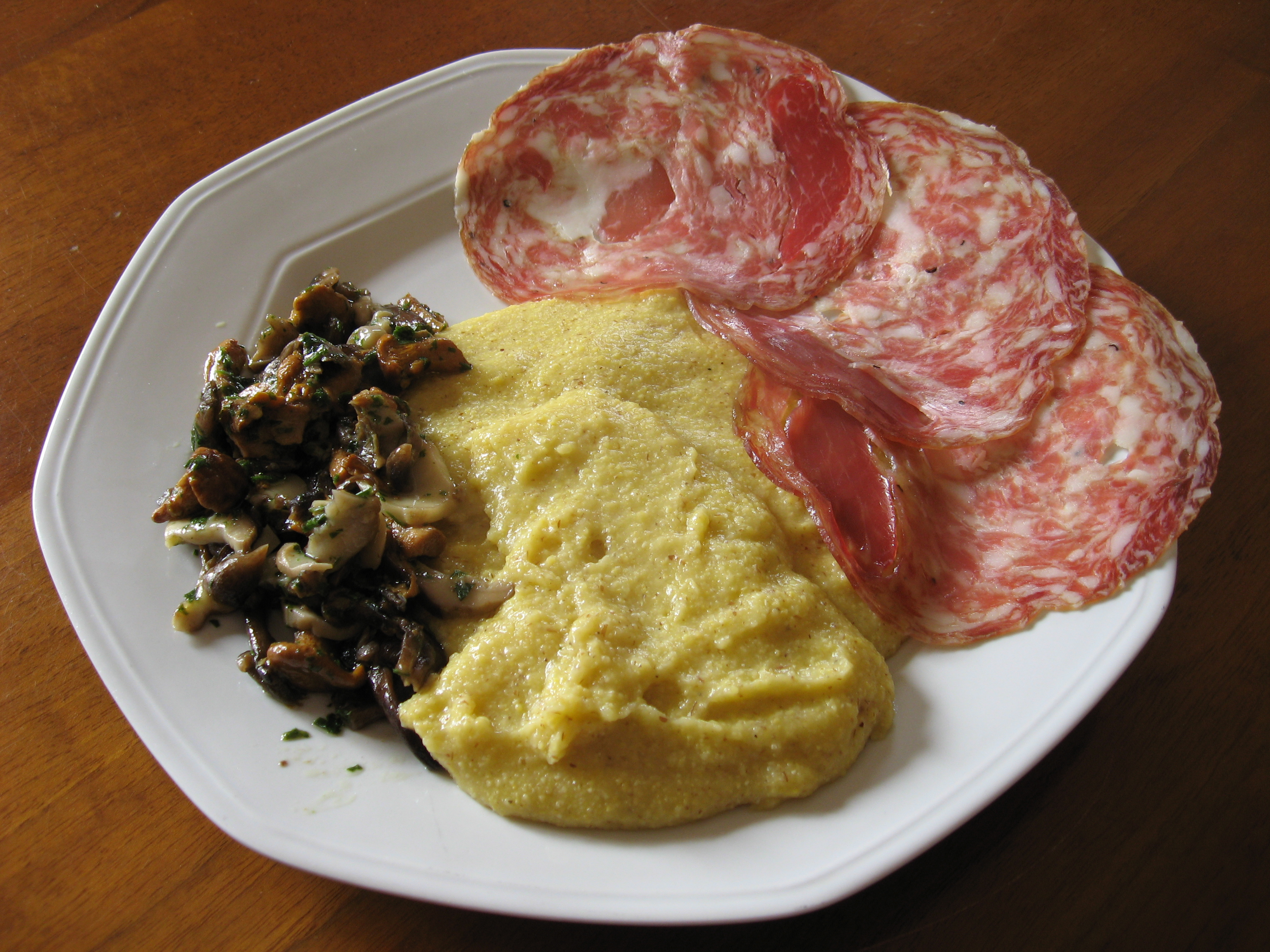 Polenta with soppressa and mushrooms. This polenta was made with "Farina gialla di Storo" (yellow flour of Storo), soppressa is a traditional Veneto sausage.